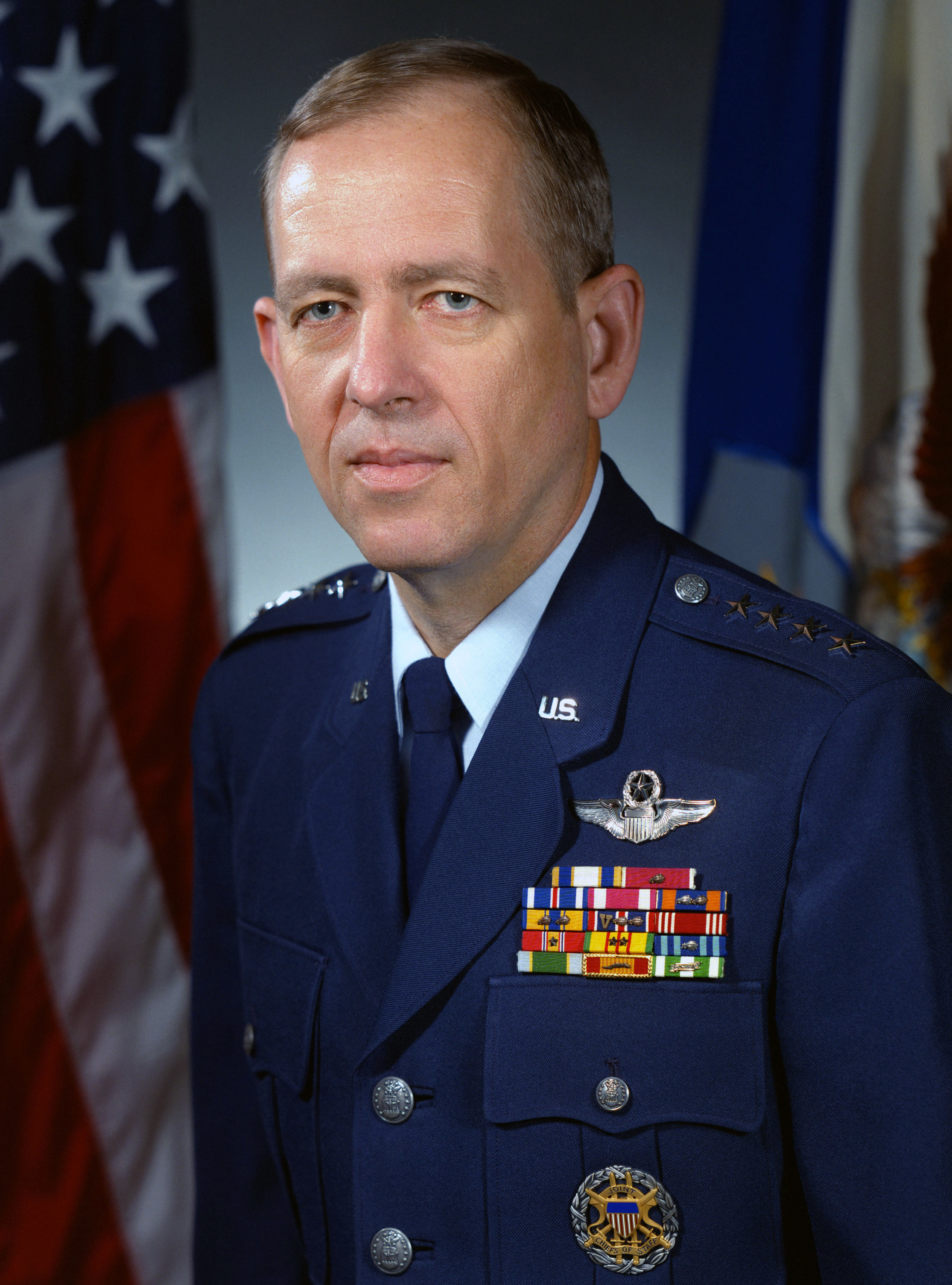 Larry Welch, former Chief of Staff of the U.S. Air Force.